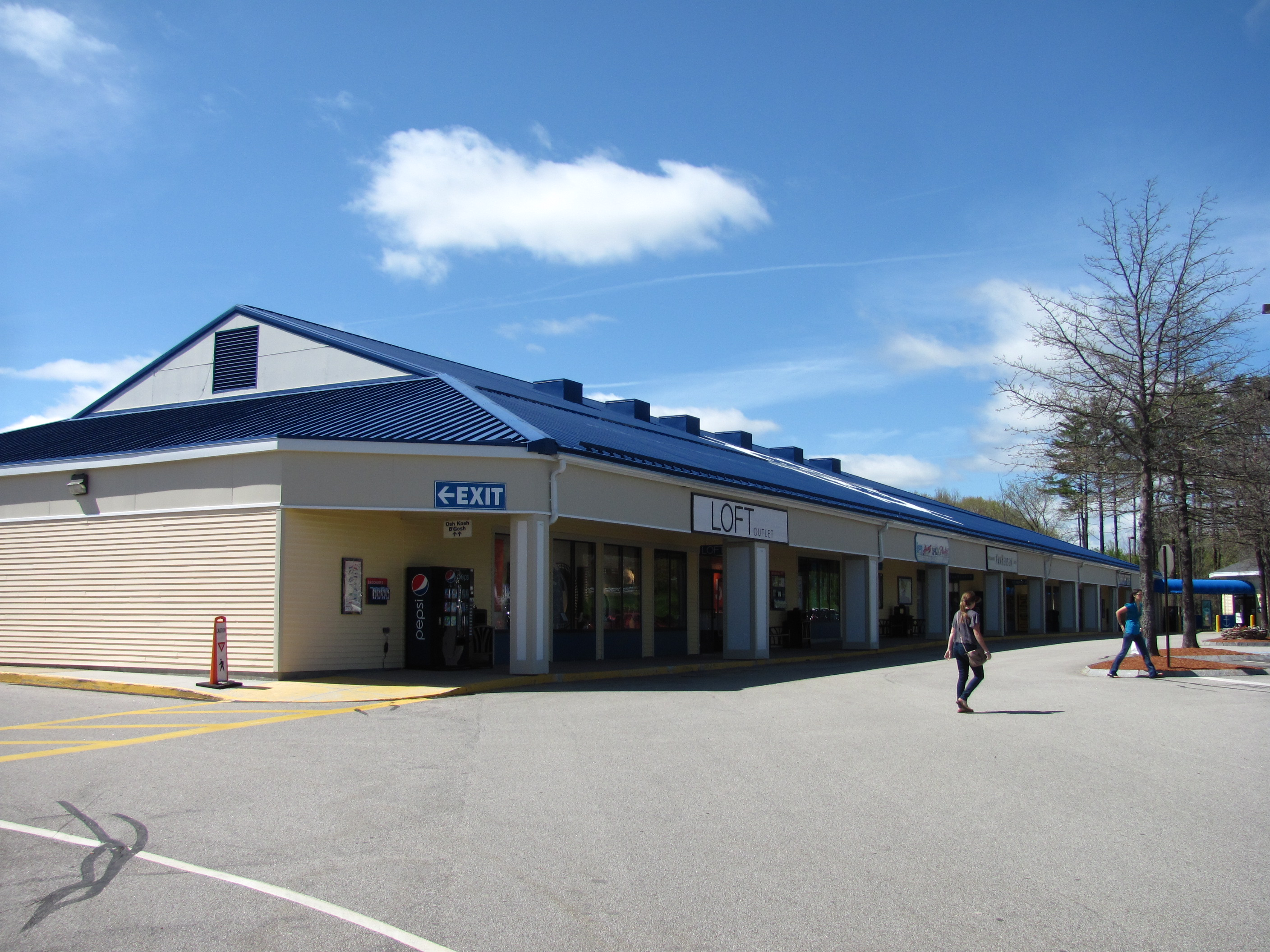 Tanger Factory Outlet Center, Kittery Maine